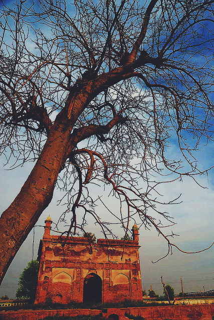 An old dak chowki (Mail statiom).